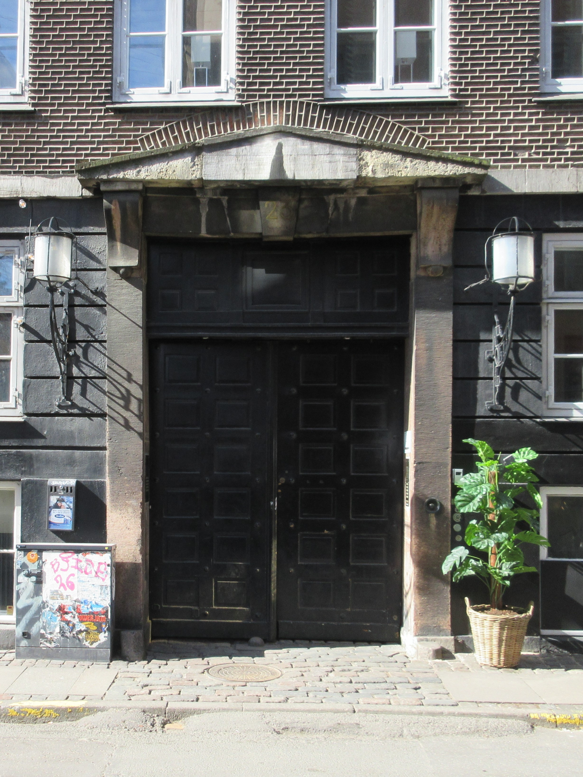 Klosterstræde 23 in Copenhagen, Denmark